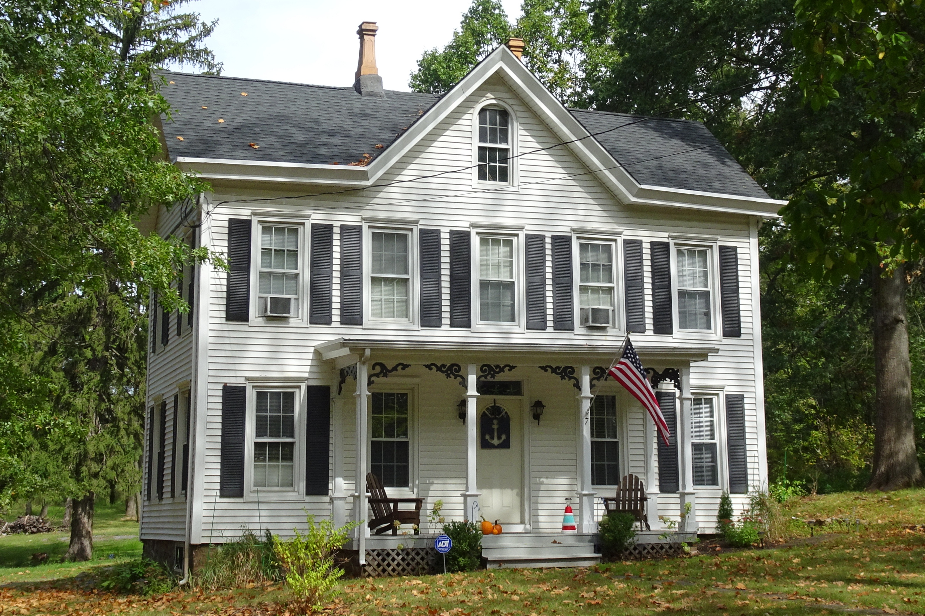 House at 7 Old Highway 28, Whitehouse, NJ. Contributing property. Built circa 1870 date QS:P,+1870-00-00T00:00:00Z/9,P1480,Q5727902. Italianate style.